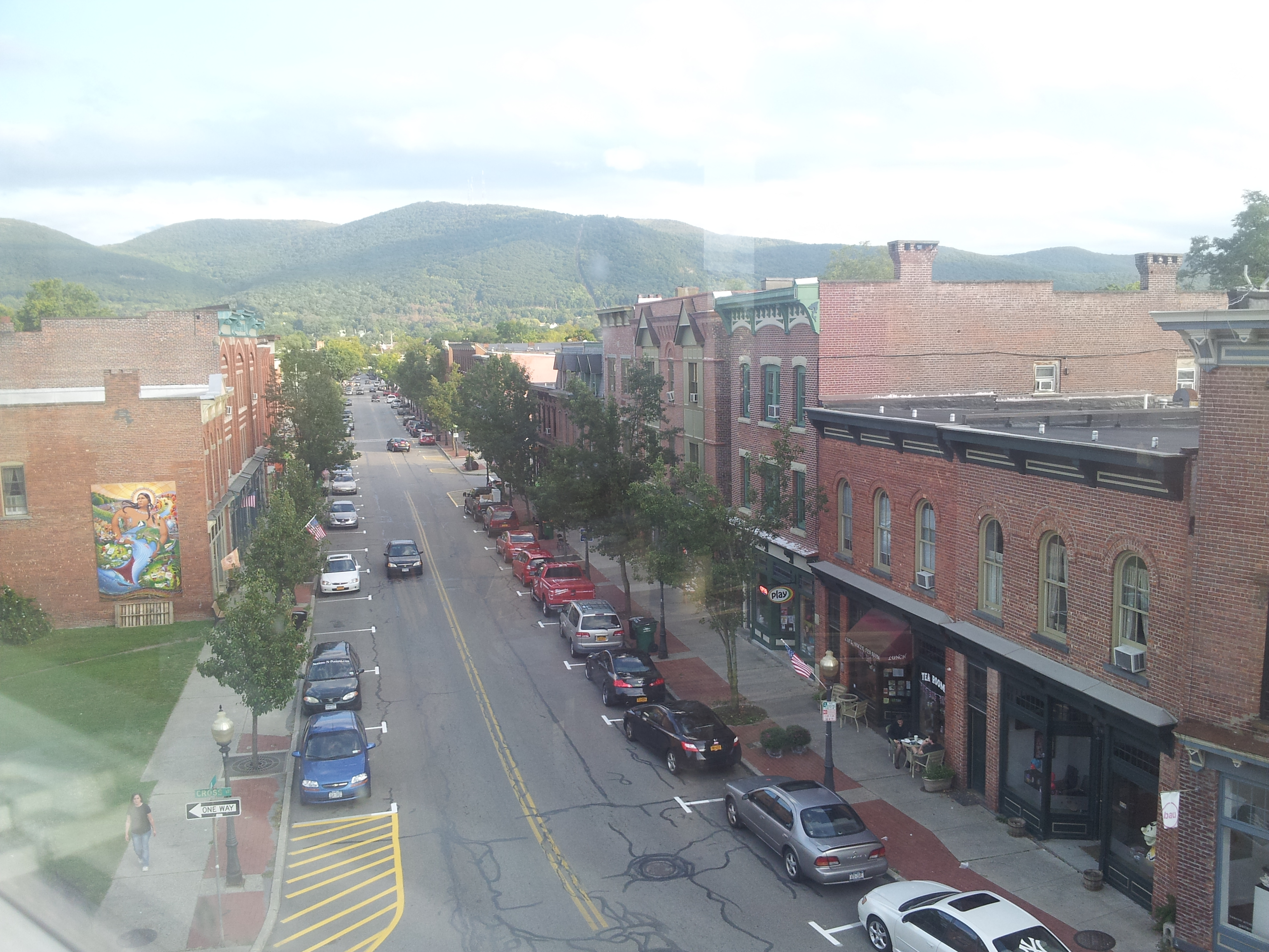 Lower Main Street Historic District